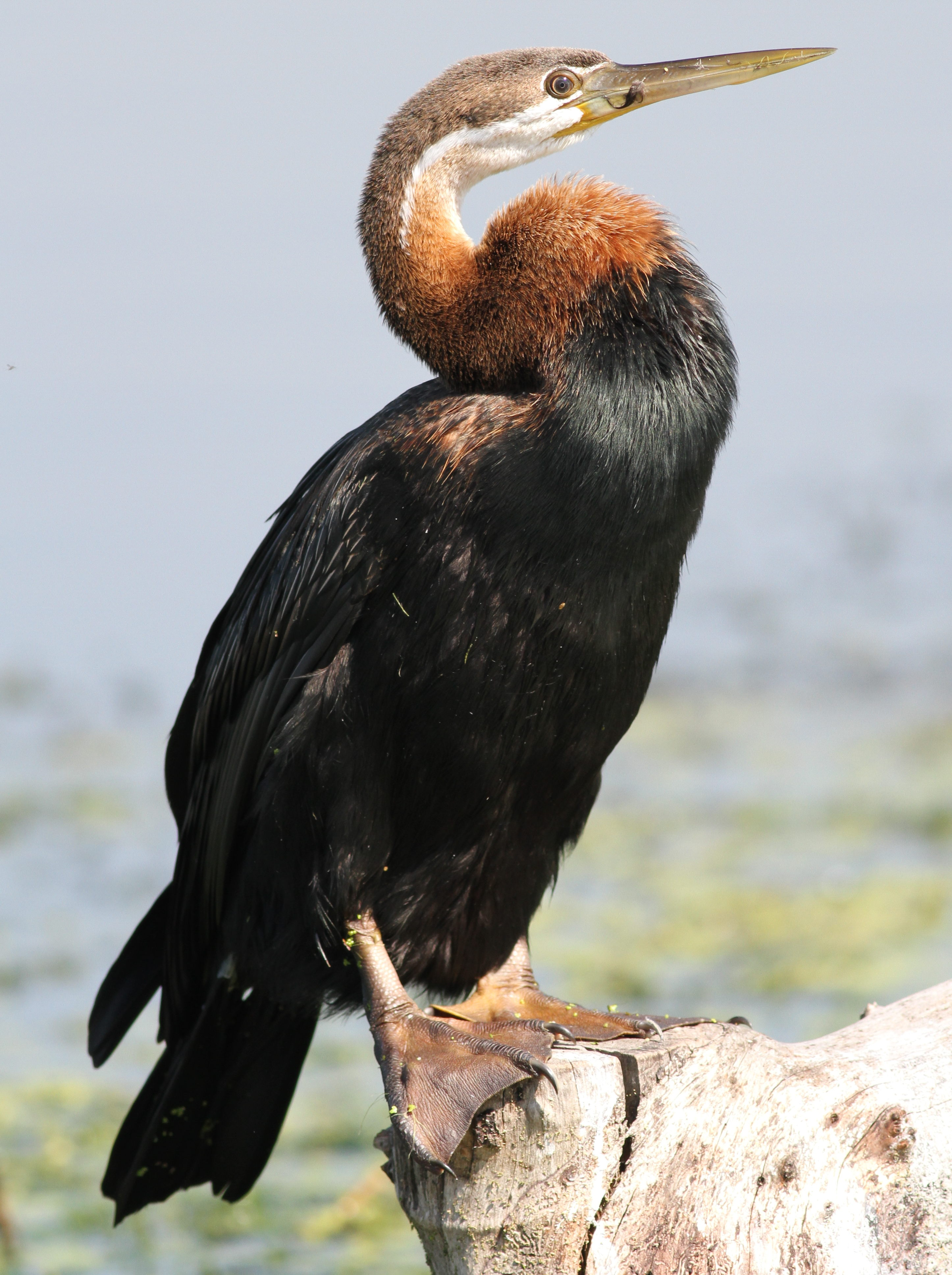 African Darter, Anhinga rufa at Marievale Nature Reserve, Gauteng, South Africa